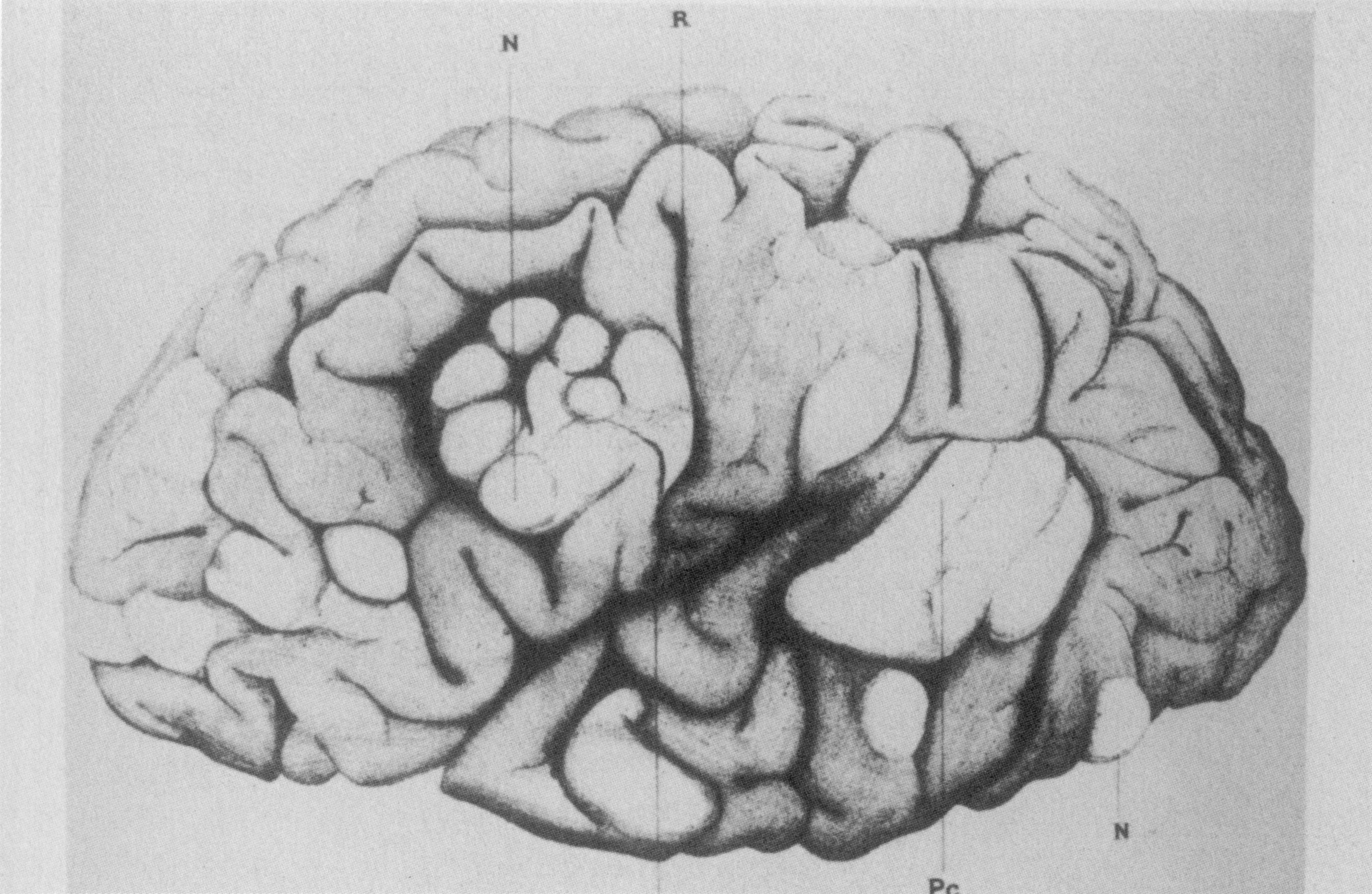 Cerebral tuberous sclerosis showing sclerotic, hypertrophic circumvolutions (from Bourneville, Désiré-Magloire; Brissaud, Édouard (1881). "Encéphalite ou sclérose tubéreuse des circonvolutions cérébrales". Archives de neurologie, Paris 1: 390-412.)